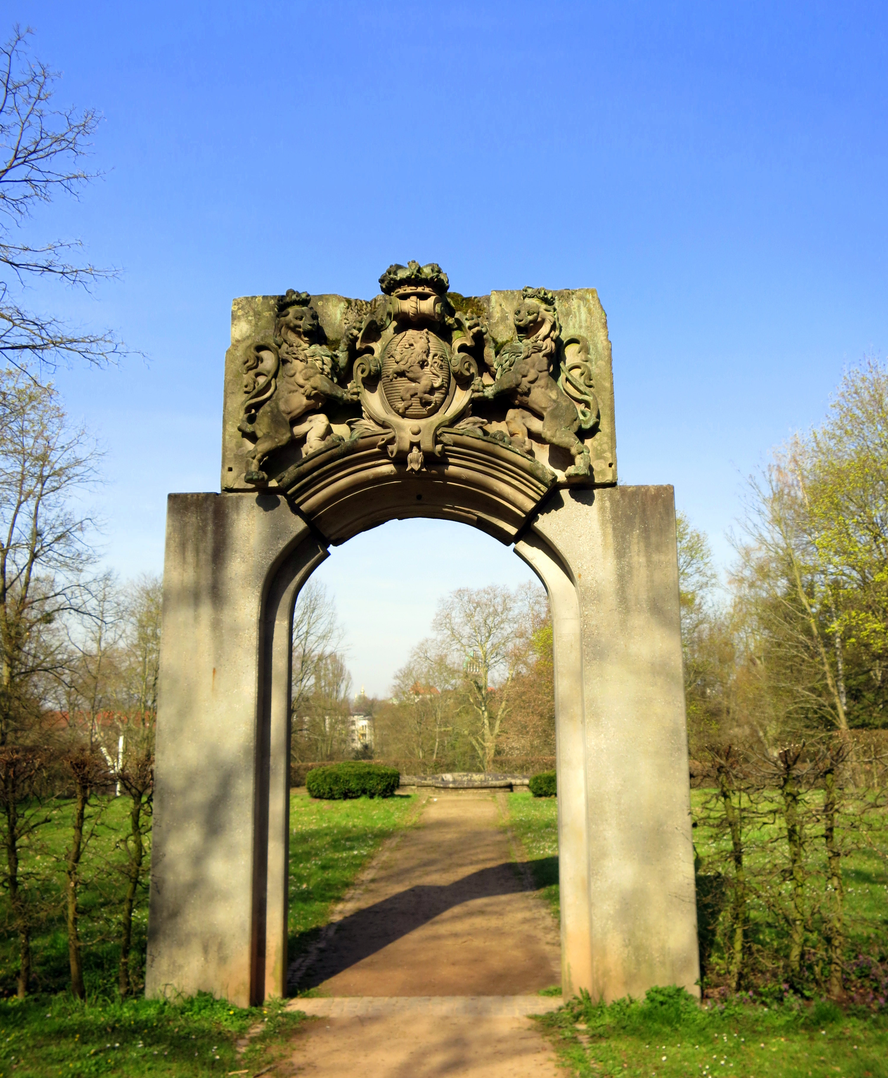 Coat of Arms of the entrance portal of the former Palais Rosenhöhe ("Rose Heights")